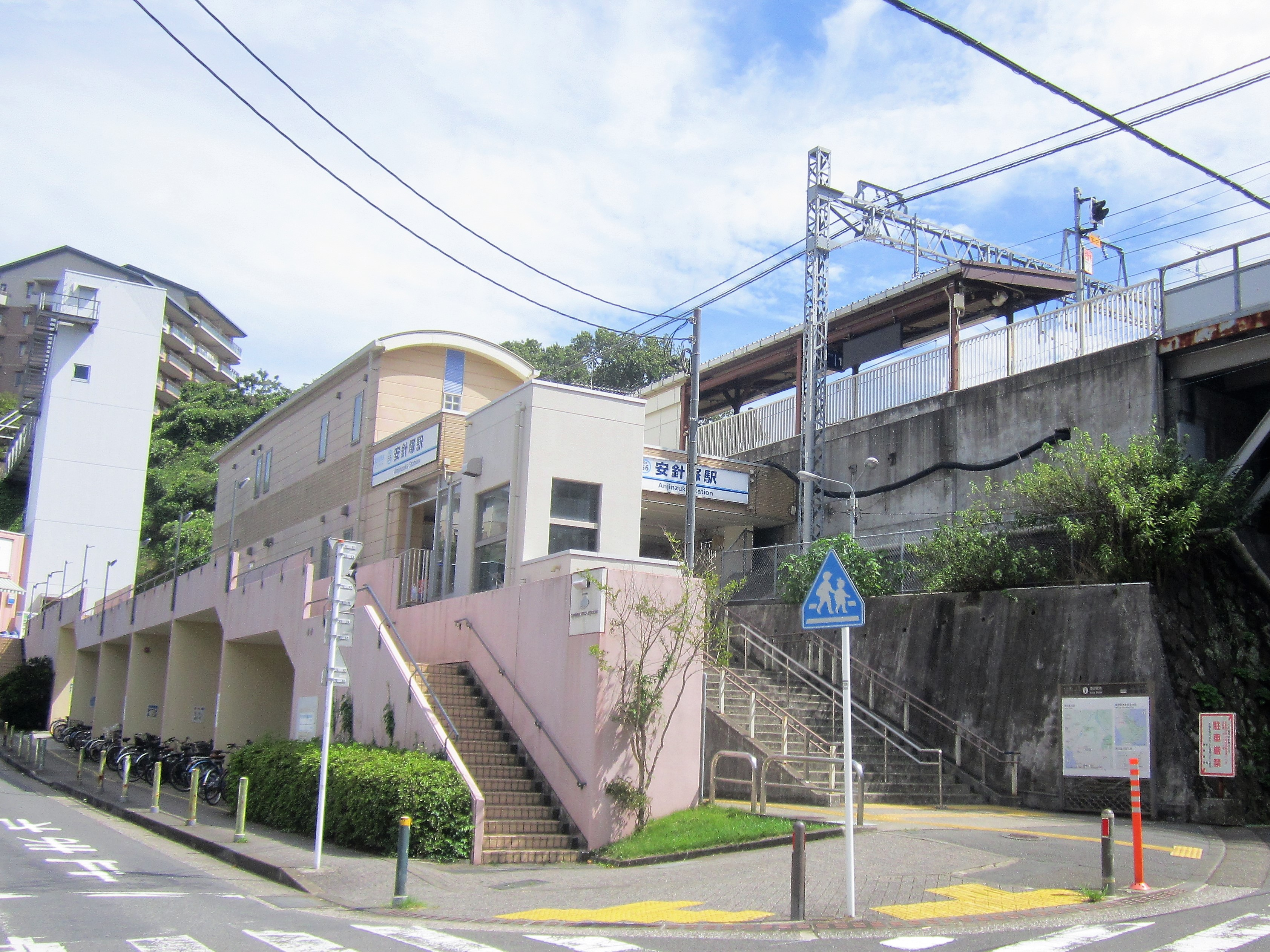 Anjinzuka Station building